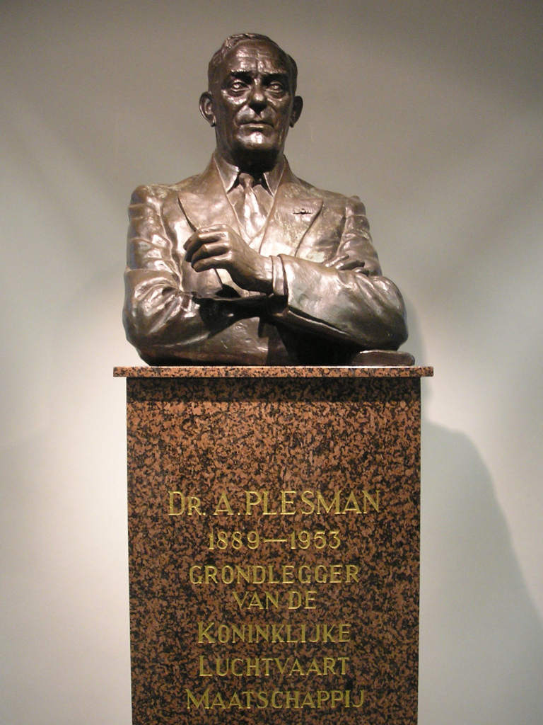 Albert Plesman - Statue at Schiphol airport